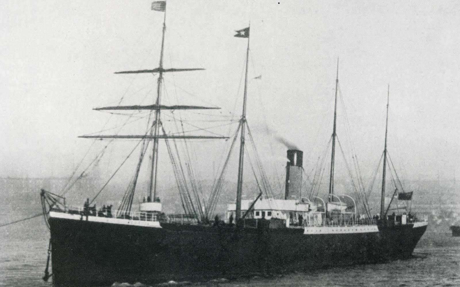 White Star Liner SS “Cufic” (1888)